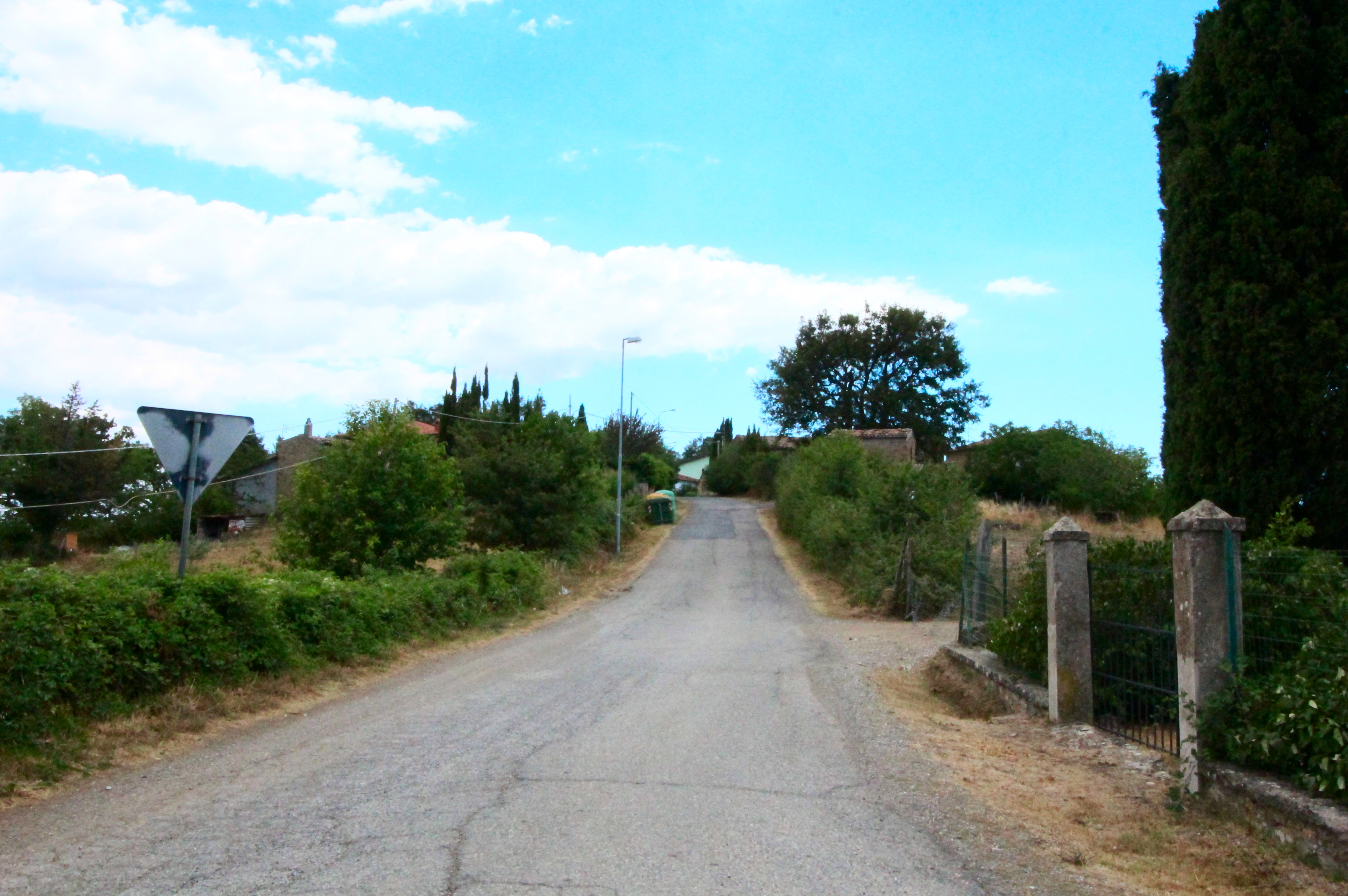 Montebuono, hamlet of Sorano, Province of Grosseto, Tuscany, Italy